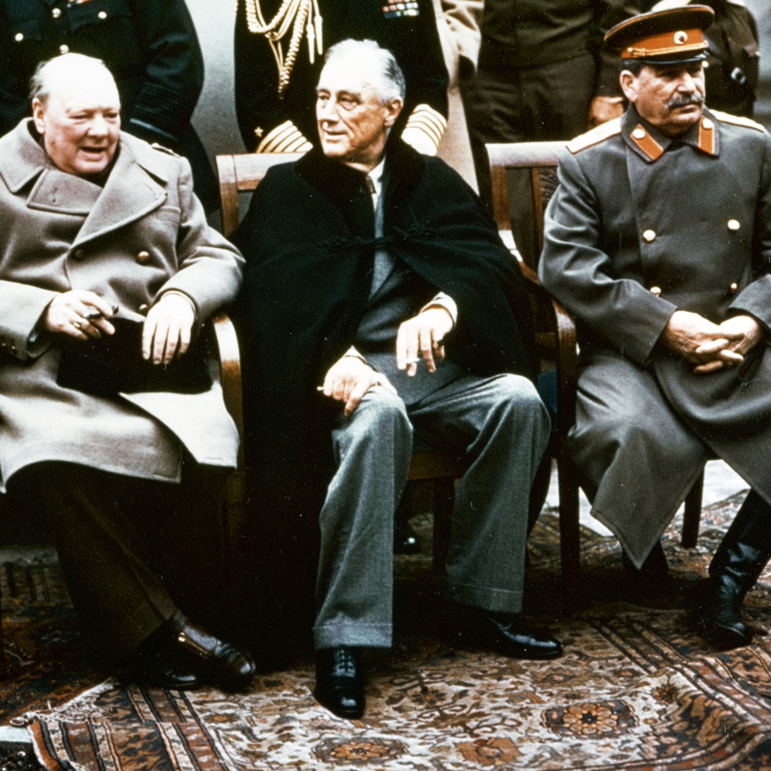 Cropped version of Image:Yalta summit 1945 with Churchill, Roosevelt, Stalin.jpg: Yalta summit in 1945 with Winston Churchill, Franklin Roosevelt and Josef Stalin